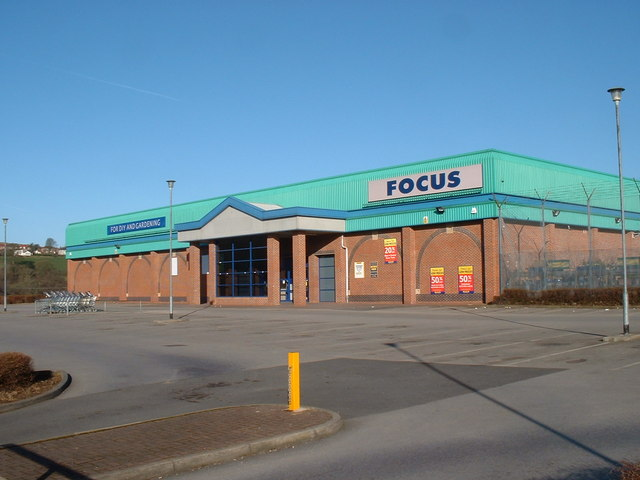 Focus DIY branch in Belper, Derbyshire.